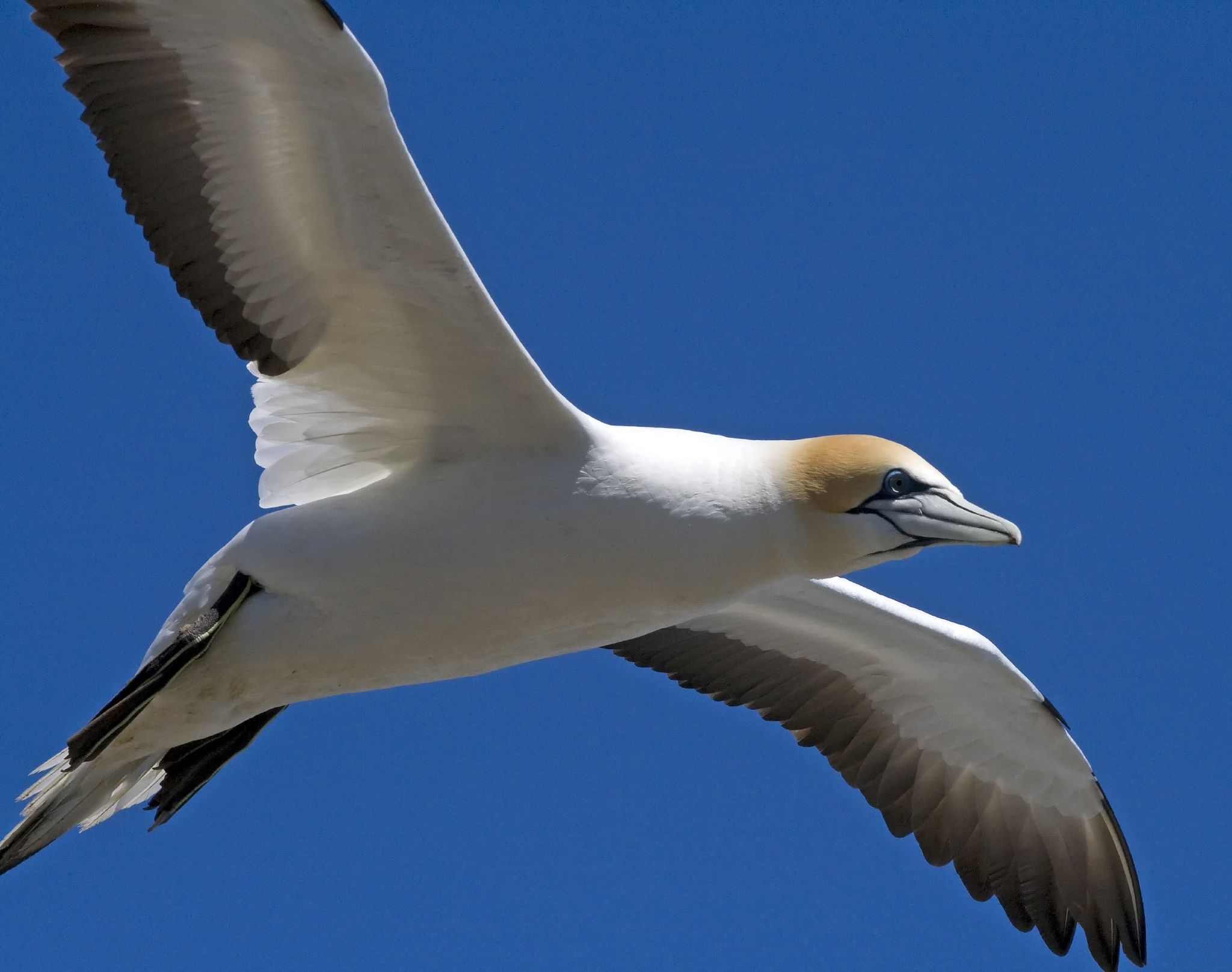 Australian Gannet (Morus serrator) Muriwai, NZ